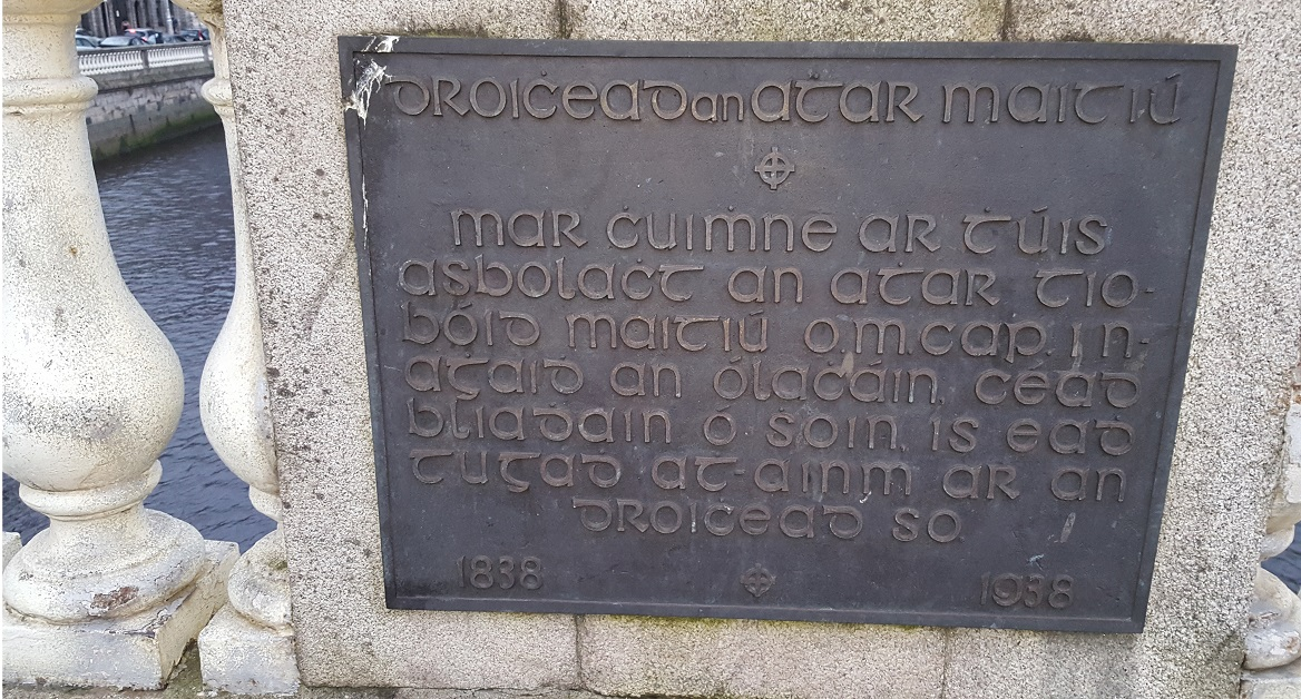 In 1938 what had been called the Dublin Bridge was renamed in honour of temperance campaigner Father Theobald Mathew (1790 – 1856)